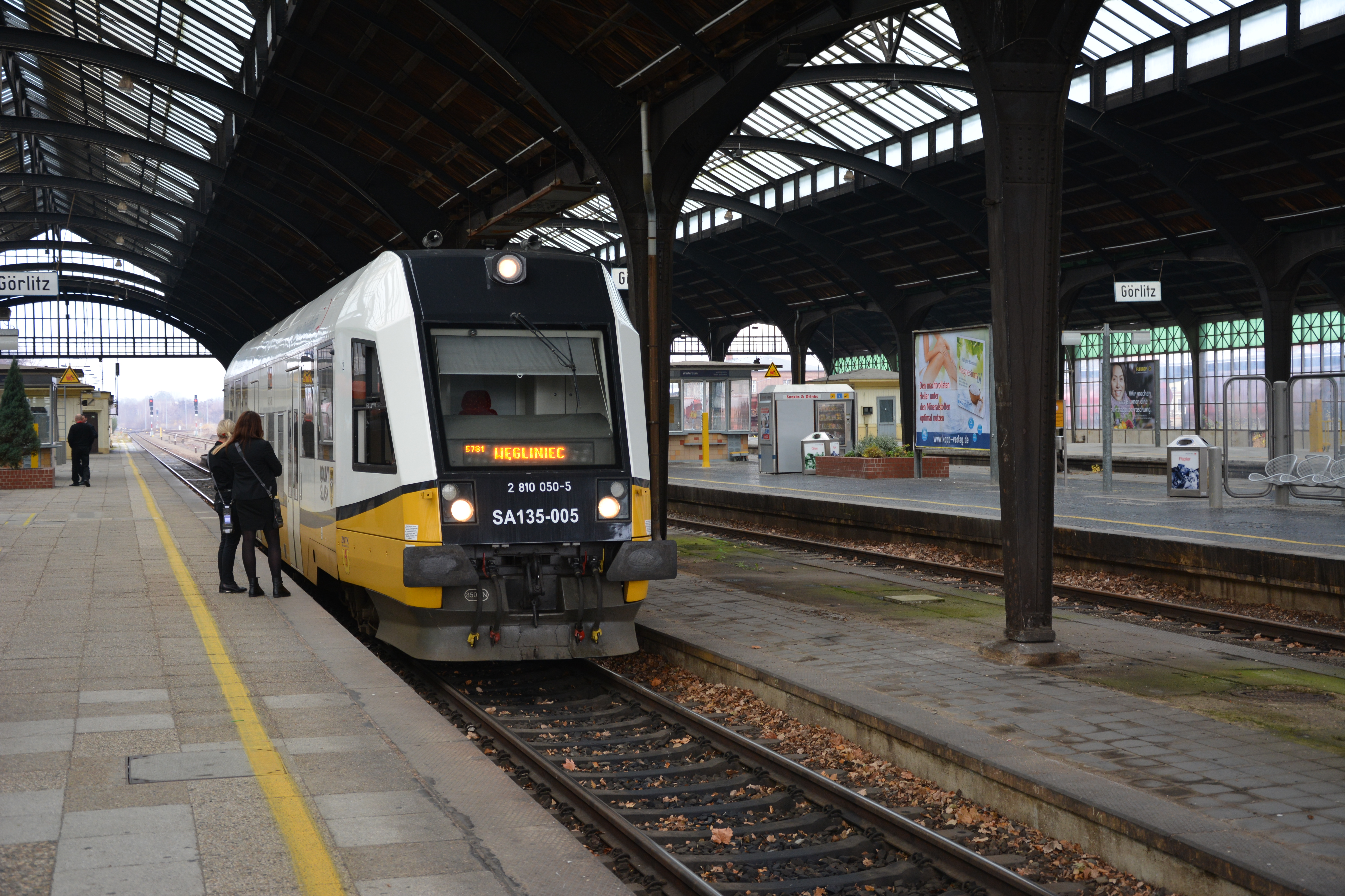 power car SA 135-005 (destination Węgliniec) of Polish rail transport company Koleje Dolnośląskie in train station Görlitz, Saxony, Germany